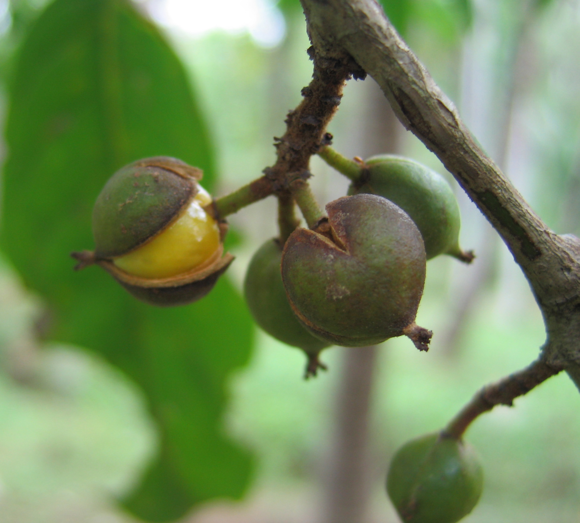 Aporosa lindleyana - വെട്ടി, വെട്ടിപ്പഴം